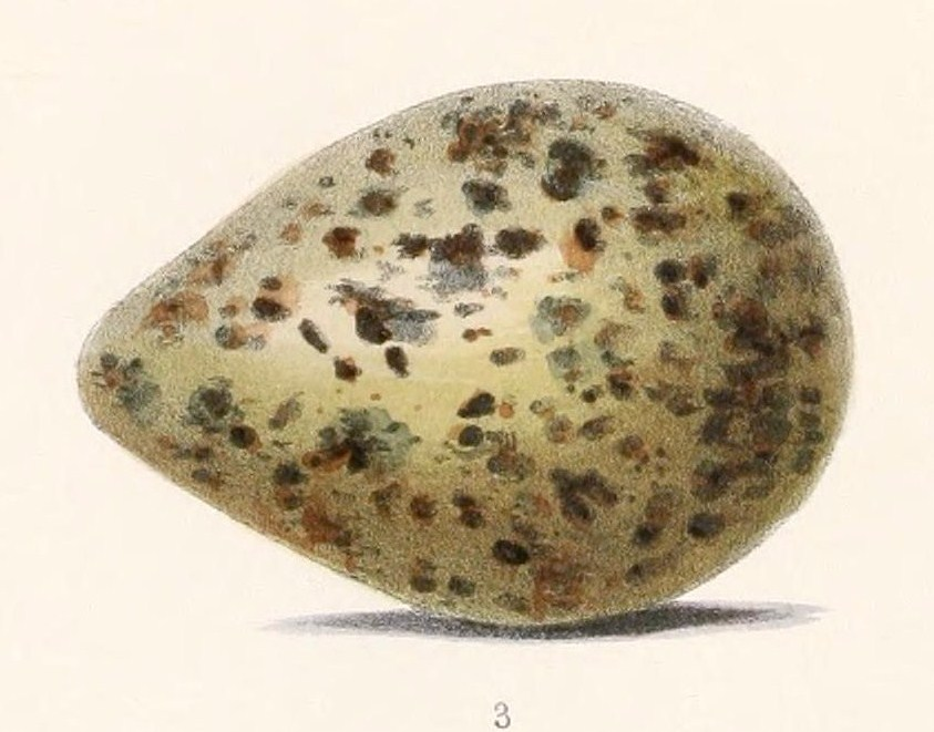 « Sarciophorus pectoralis » = Vanellus tricolor (Banded Lapwing) - egg